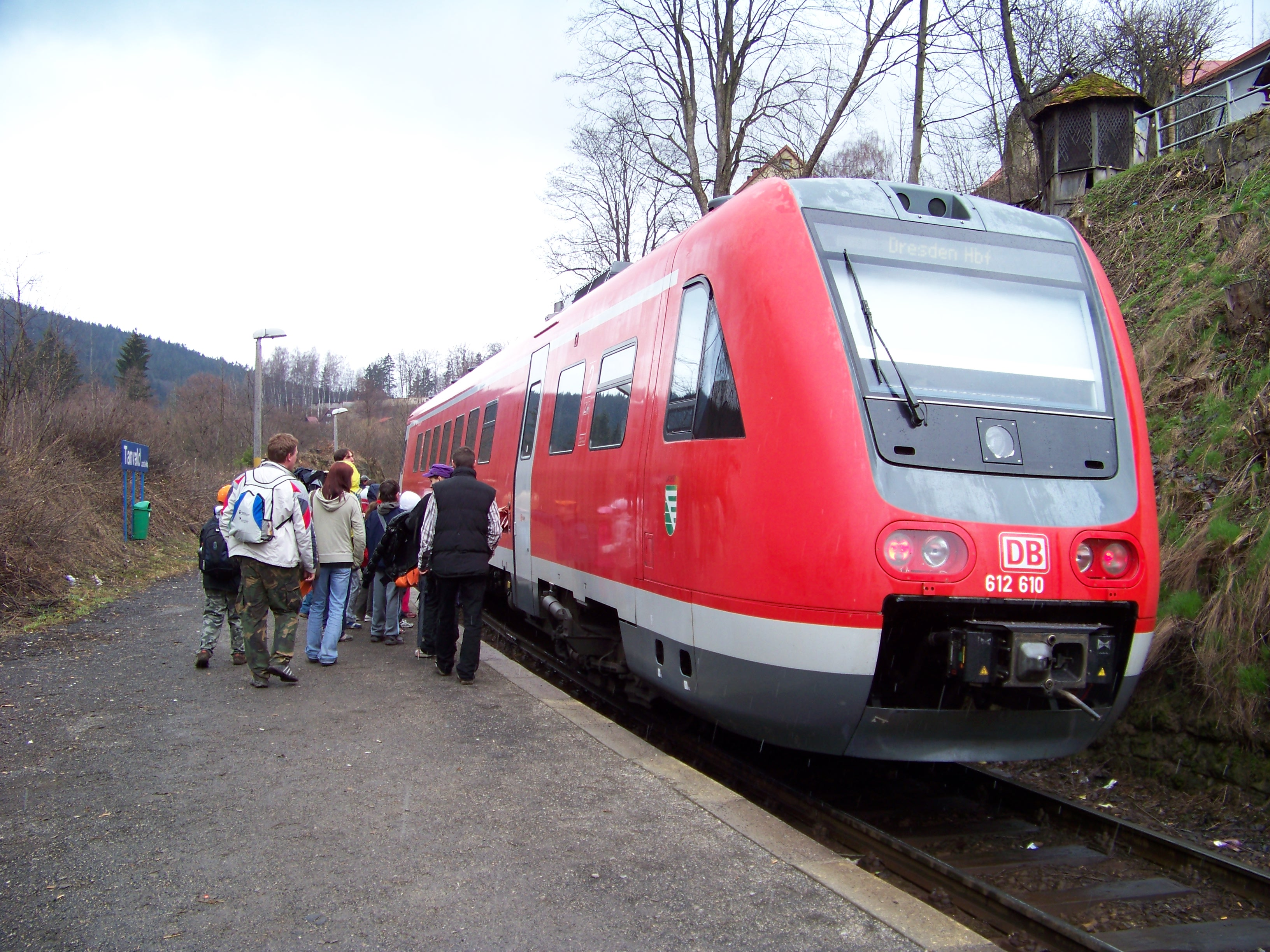 Tanvald, Jablonec nad Nisou District, Liberec Region, the Czech Republic. RegioSwinger DB.